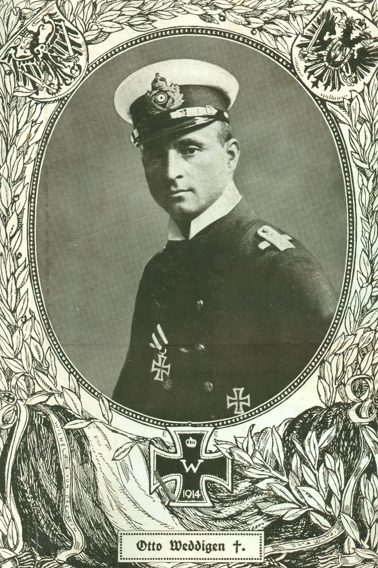 Otto Weddingen